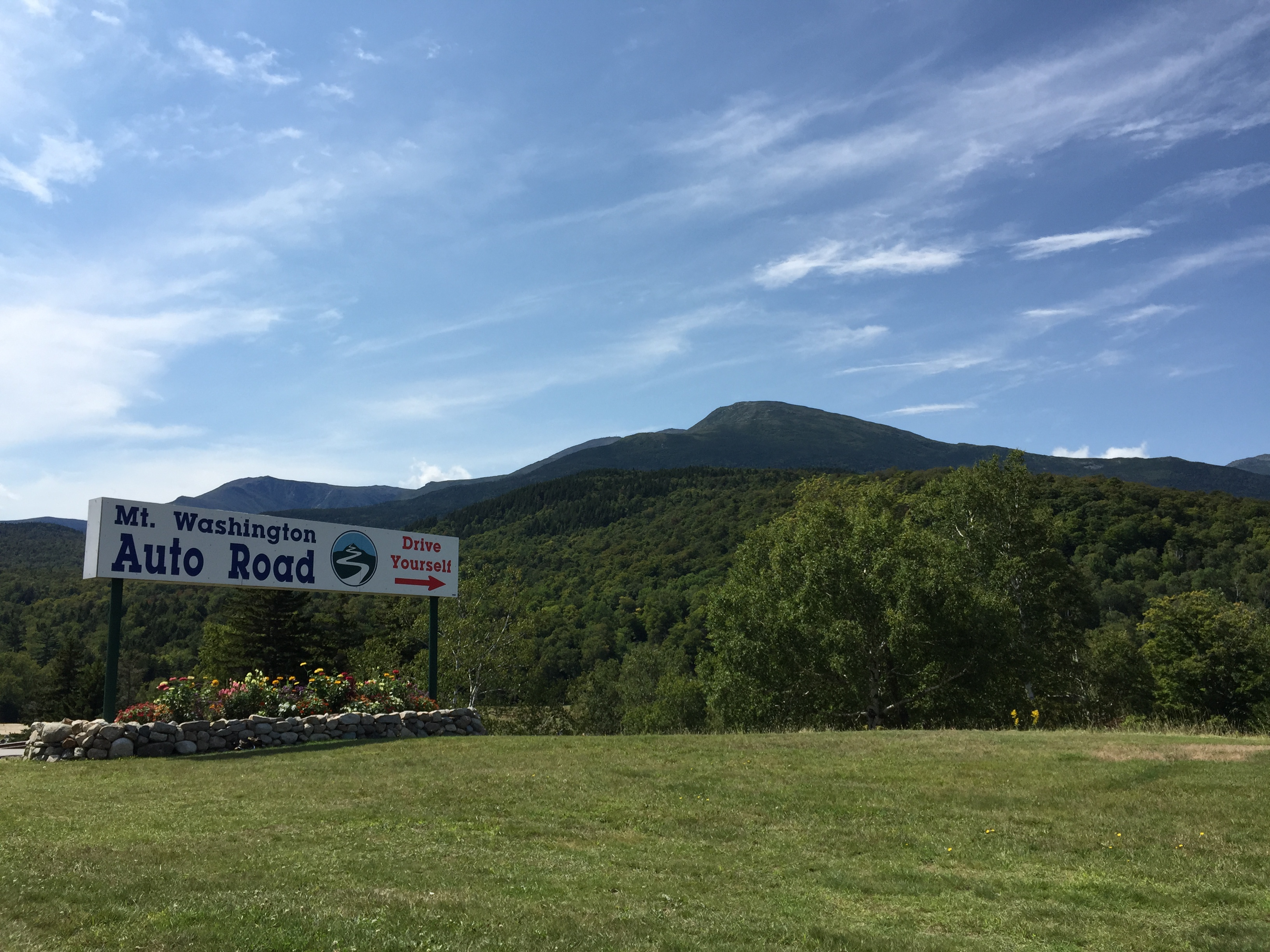 View of Mount Washington, New Hampshire from the bottom (east) end of the Mount Washington Auto Road in Green's Grant Township, Coos County, New Hampshire